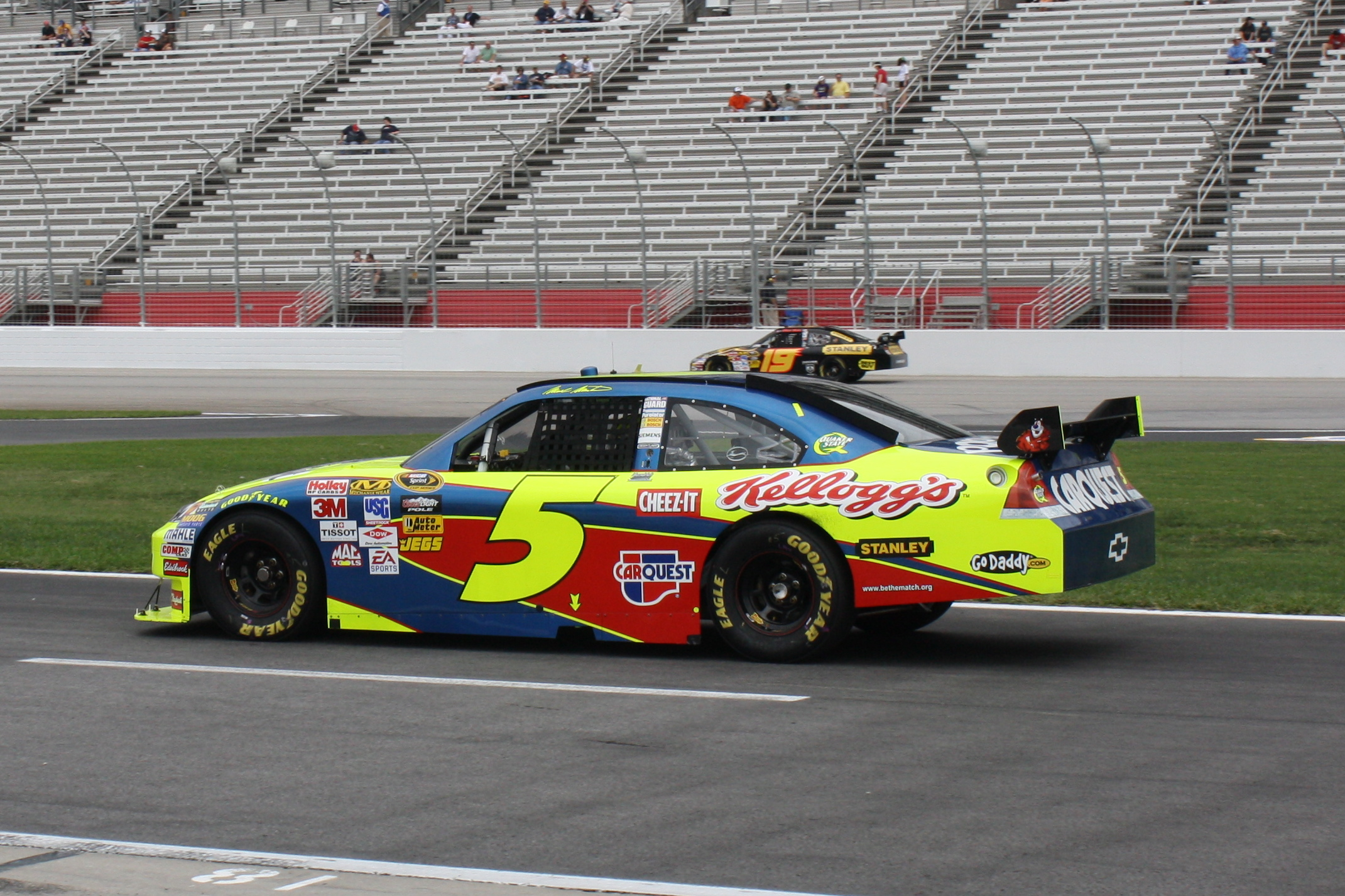 Mark Martin heads out to practice at Atlanta Motor Speedway